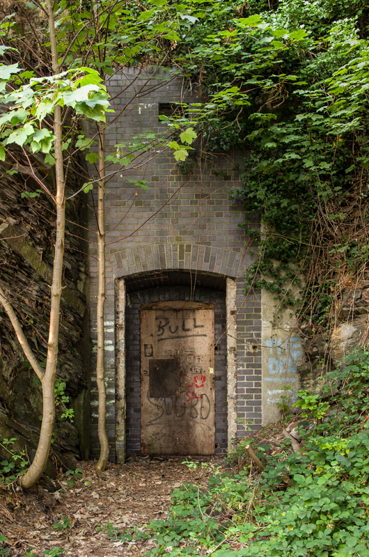 In the rock under the National Library of Wales is a tunnel, built by the library as a bomb-proof depository to be used in the event of war. During the Second World War the British Museum was invited to make use of the facility and 100 tons of books, manuscripts, prints and drawings were transferred there for safe keeping.